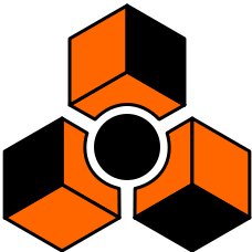 Logo Propellerhead Reason